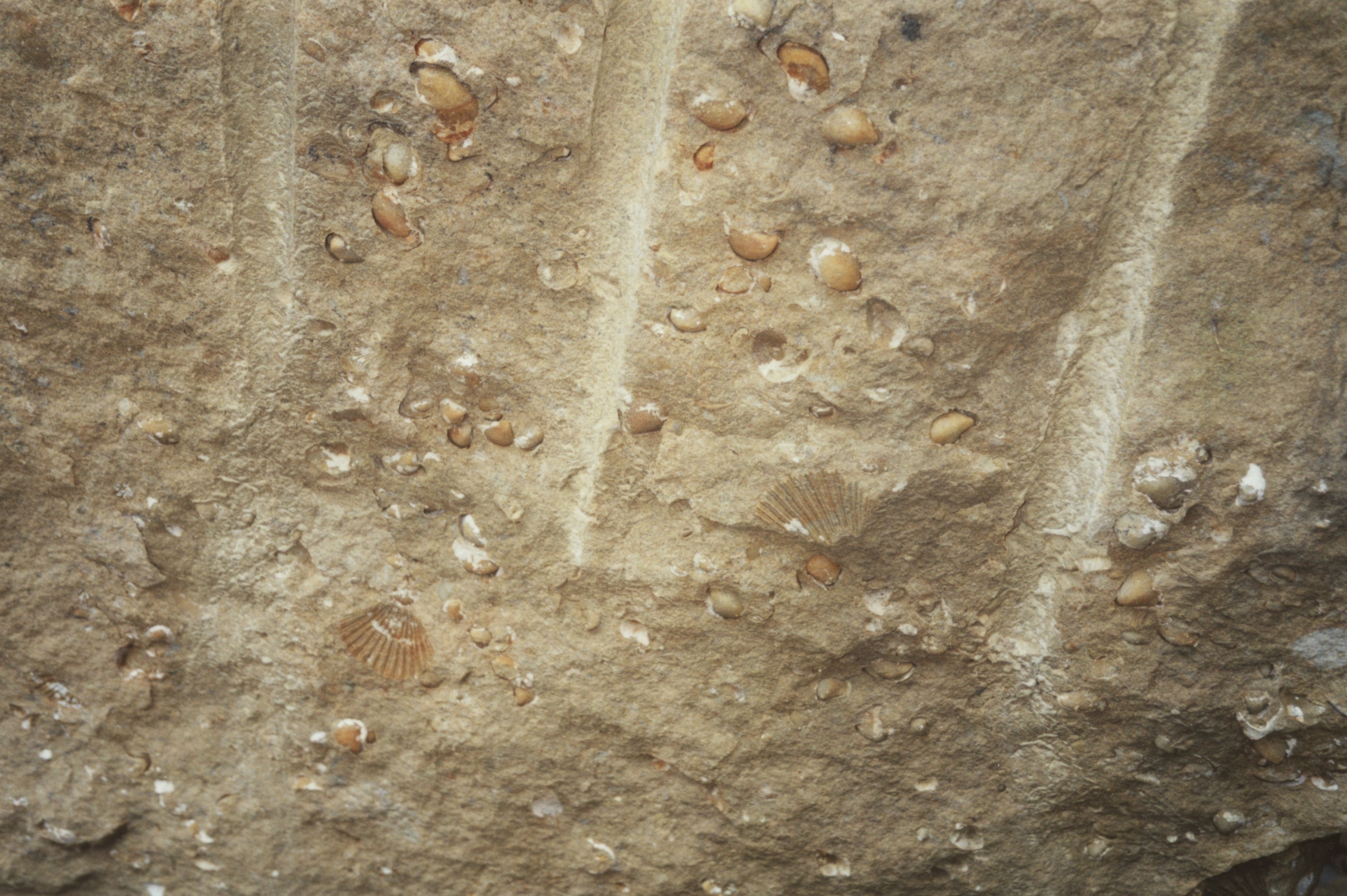 sandstone Libná (CZ), Bohemian Cretaceus Basin / Hejšovina region / Cenomanian / Koryčany member